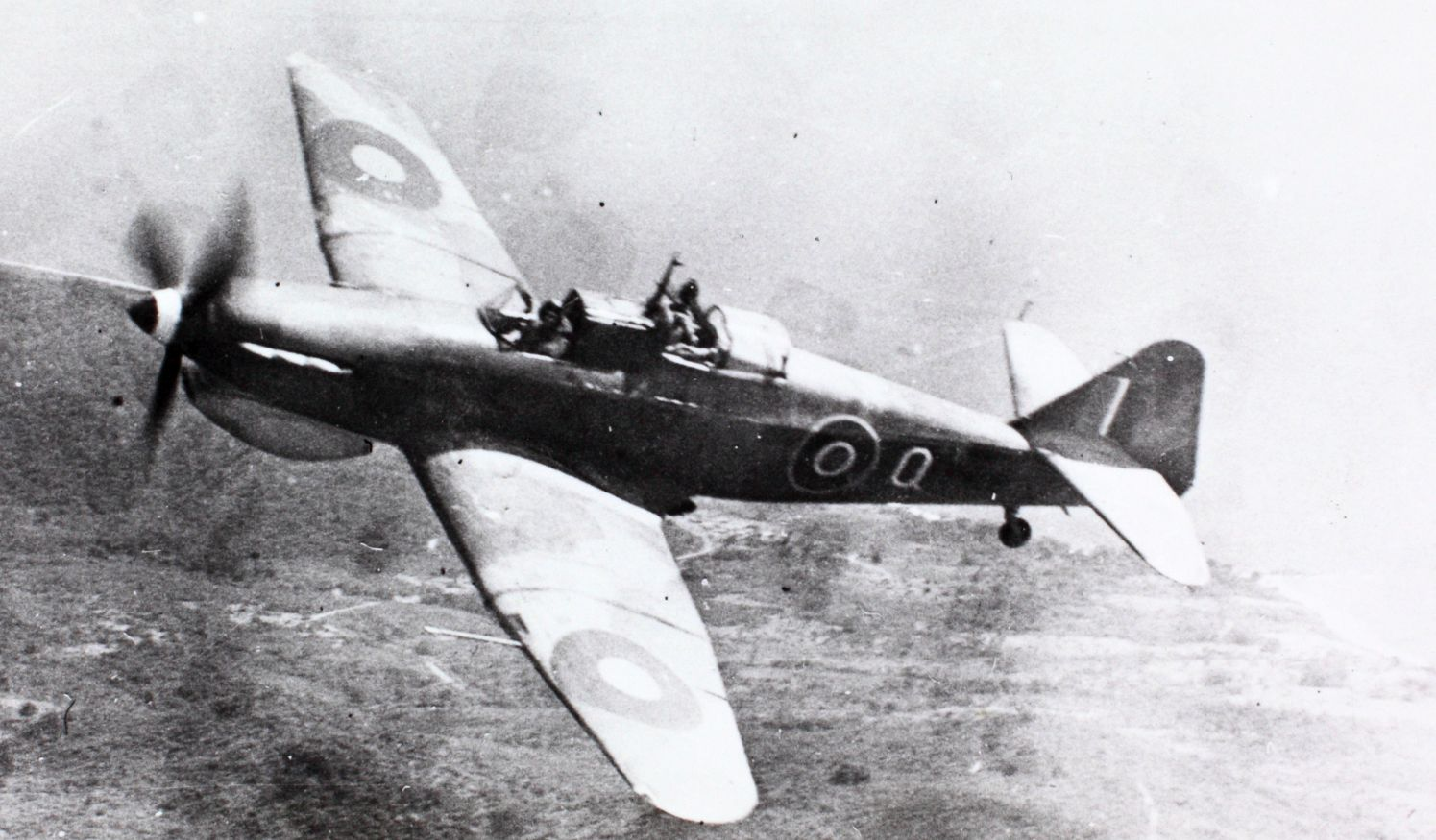 Image from the Charles Daniels Photo Collection album "British Aircraft." SOURCE INSTITUTION: San Diego Air and Space Museum Archive